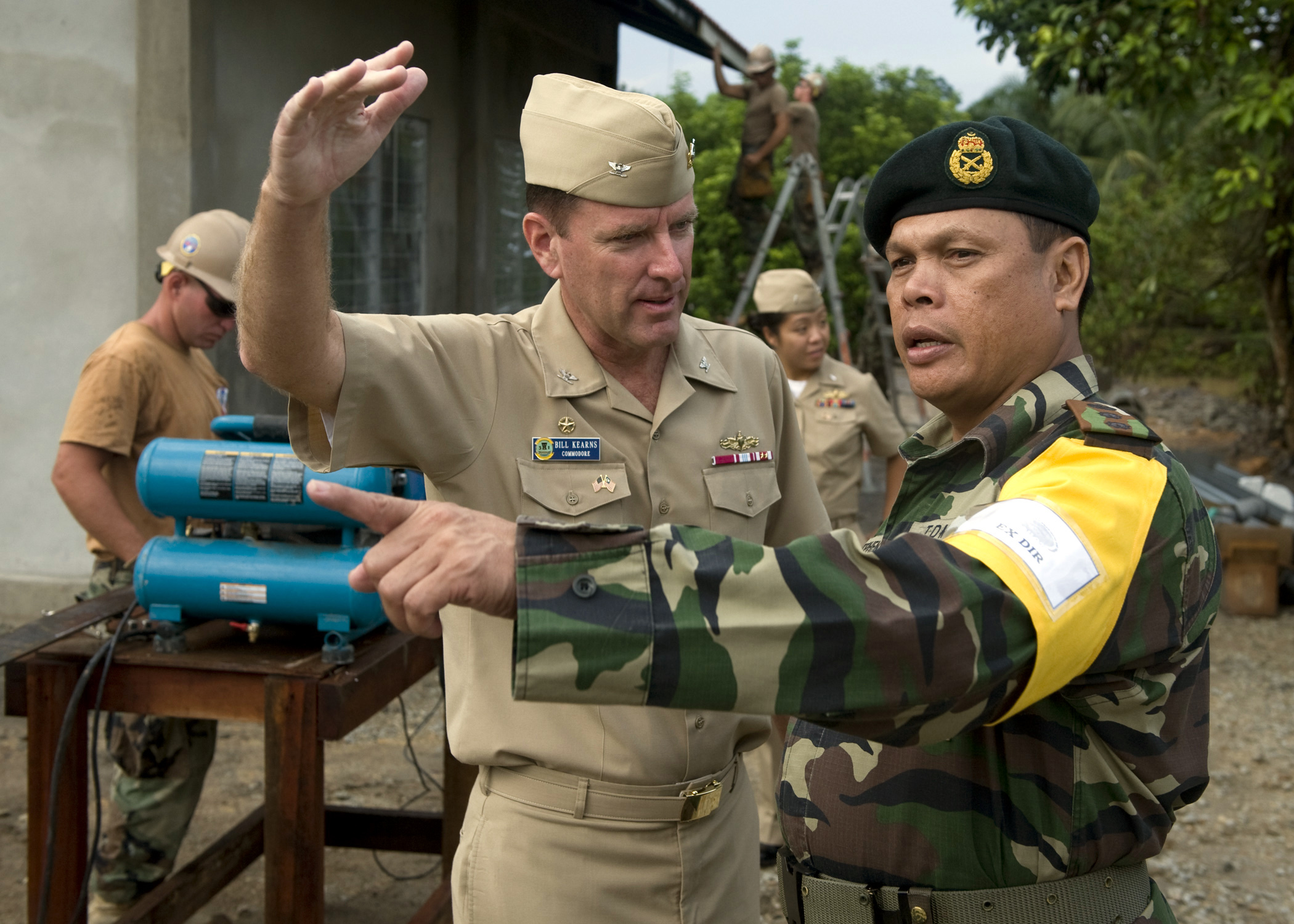 U.S. Navy Commodore Bill Kearns, commander, Task Group 73.5, left, and Malaysian army Col. Stephen Mundaw discuss an engineering civil action project job site during Cooperation Afloat Readiness and Training Malaysia 2009. Seabees and Malaysian army engineers are building a school addition for after school and community programs. CARAT is a series of bilateral exercises held annually in Southeast Asia to strengthen relationships and enhance the operational readiness of the participating forces.